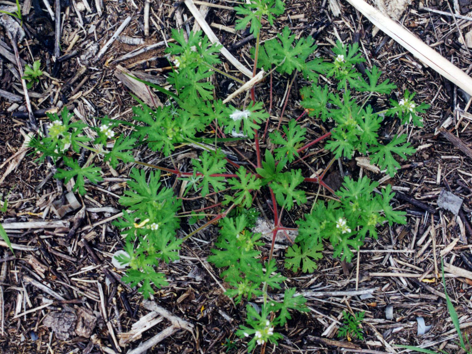 Geranium bicknellii Britton - Bicknell's cranesbill - IA, Scott Co., Davenport, Nahant Marsh